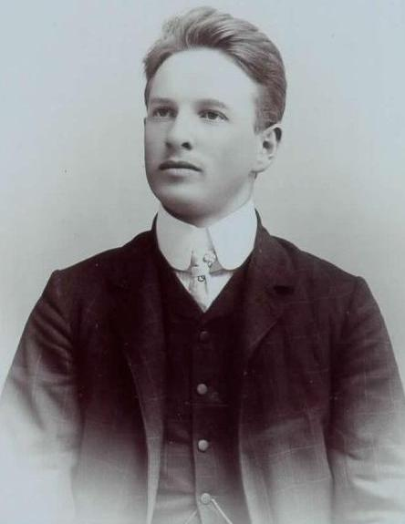 Vojeslav Mole (1886-1973), slovene art historian.